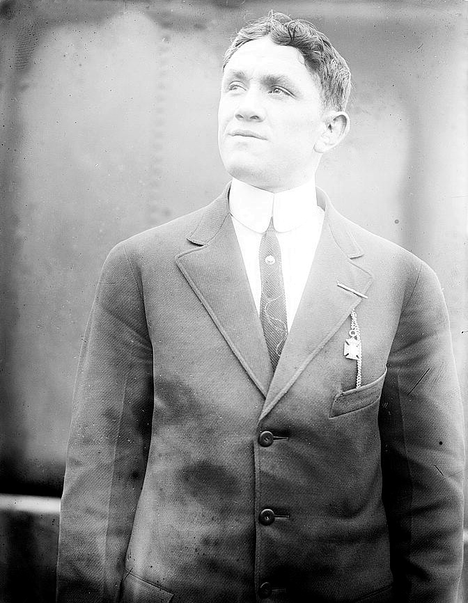 "Johnny Kilbane" An undated image, from the Bain News Service, of American boxer Johnny Kilbane.